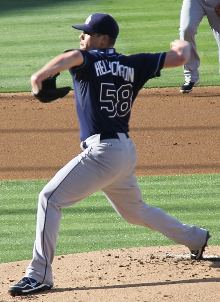 Jeremy Hellickson 2013